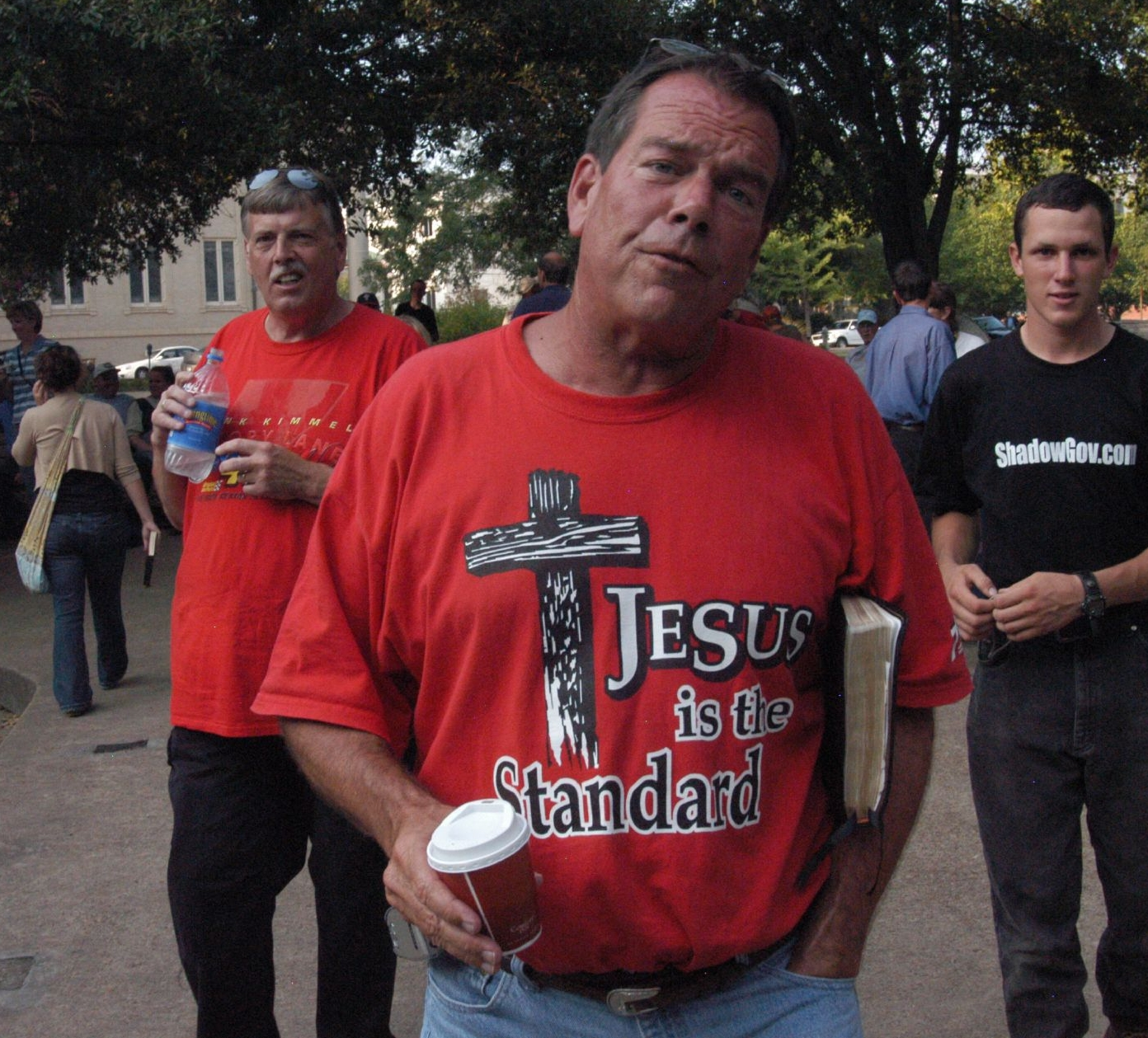 "Flip" Benham accuses cameraman Mark Lyon of being being godless and supporting abortion.